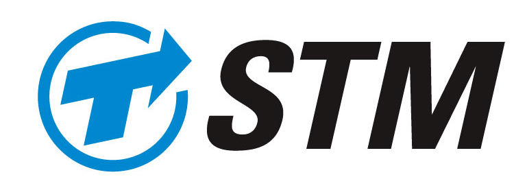 Old logo of societe transport de montreal